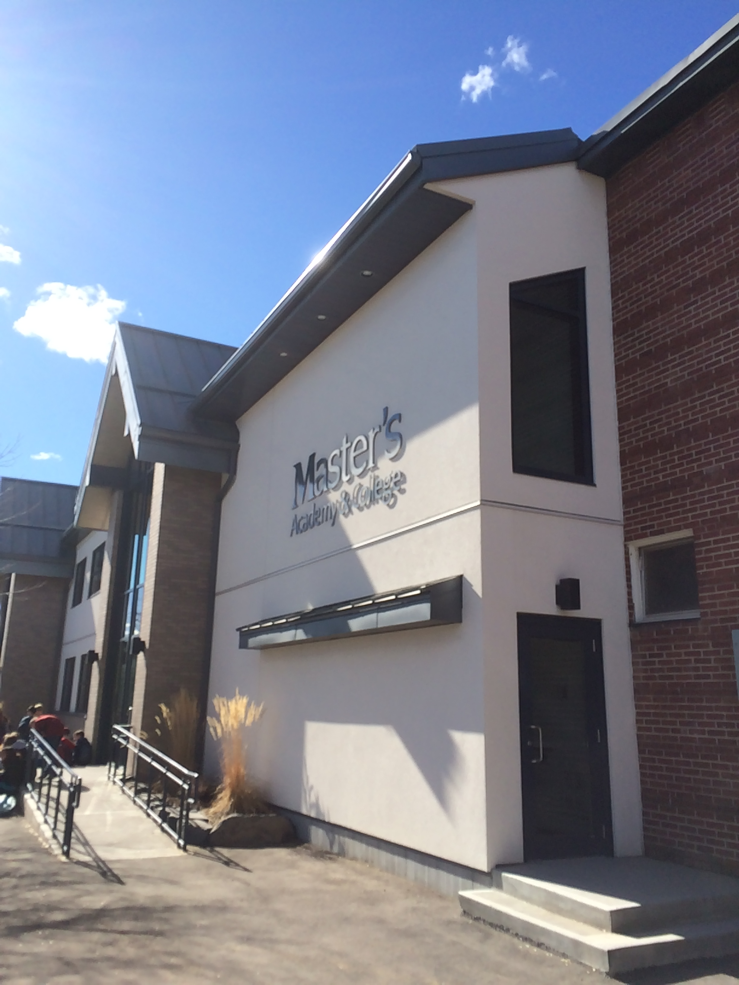 A front view of newly renovated section of the school